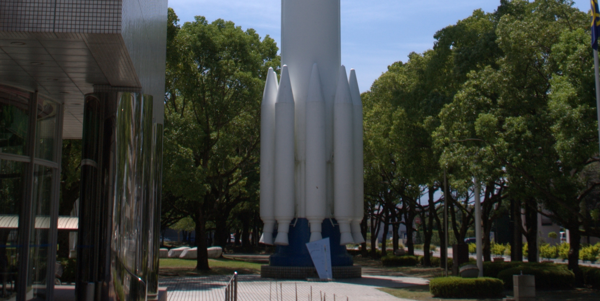 based on user:masamic's H-I-FullScaledModel-20090827.jpg, trimming (by user:MetaNest) for strap-on boosters